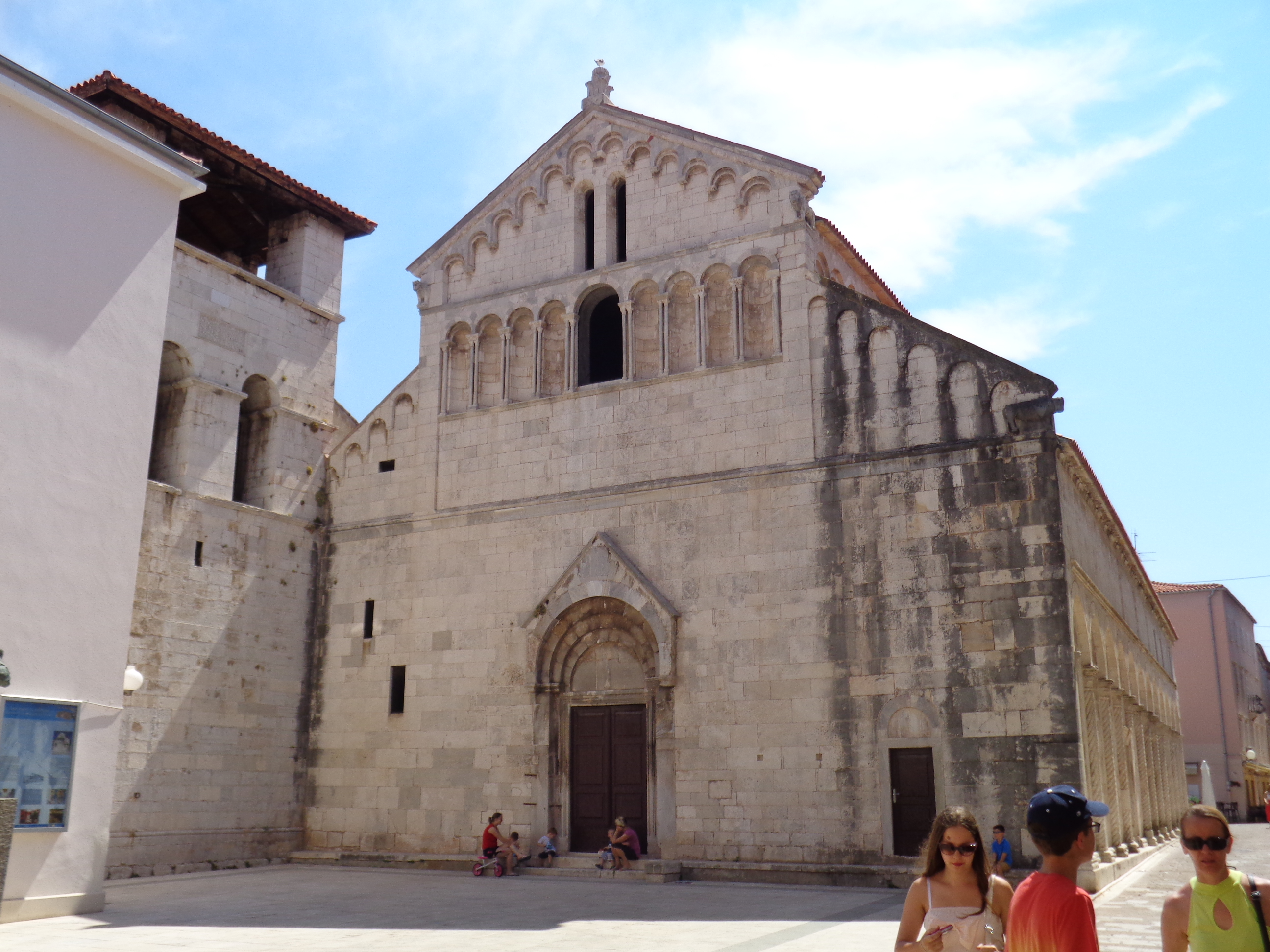 Zadar, Croatia - Church of St. Chrysogonus at the St. Chrysogonus Square (facade)